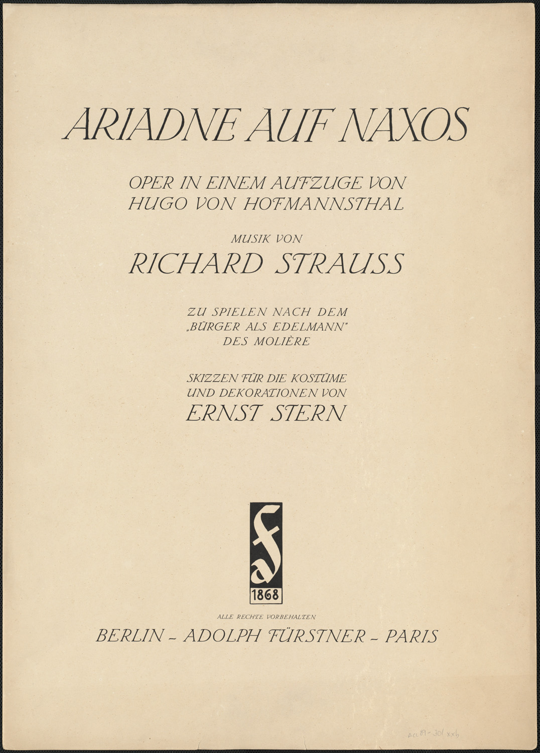 BPLDC no.: 09_07_000001 Page/Plate Number: Title page Volume: Ariadne auf Naxos : Oper in einem Aufzuge von Hugo von Hofmannsthal ; Musik von Richard Strauss, zu spielen auf dem "Bürger aus Edelmann" des Molière ; Skizzen für die Kostüme und Dekorationen Call no.: Acc. 89-301 xxb Creator: Ernst Stern Description: [54] leaves : col. ill. (some folded) ; 63.3 cm. Summary: Prints of costumes and sets for the original (1912) production of Richard Strauss's Ariadne auf Naxos.